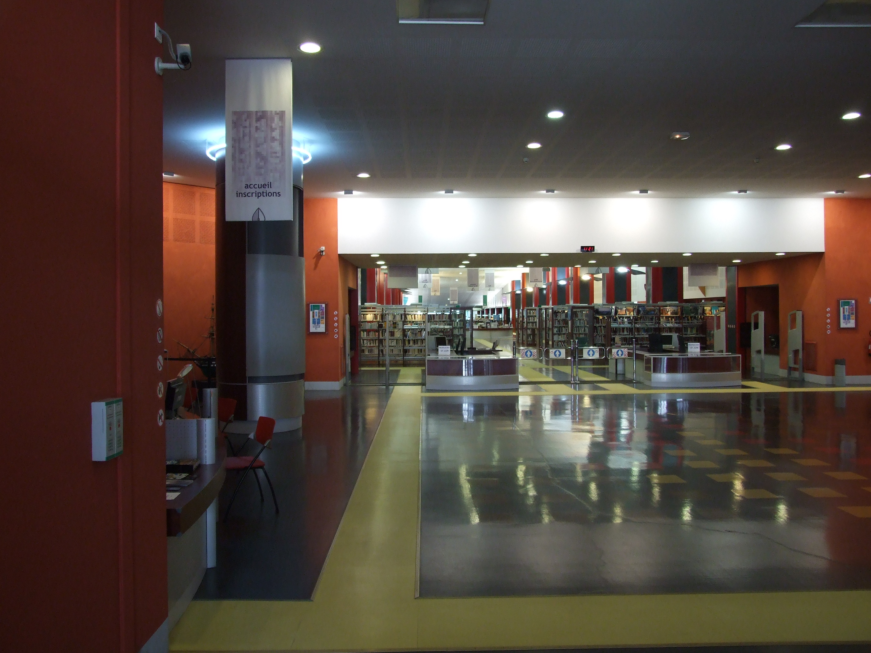 The entrance hall of Louis Nucéra library in Nice, France. In the background, the main room of the library.